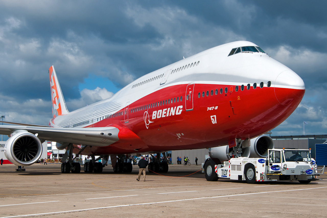 N6067E / 57 (cn 38636/1434)